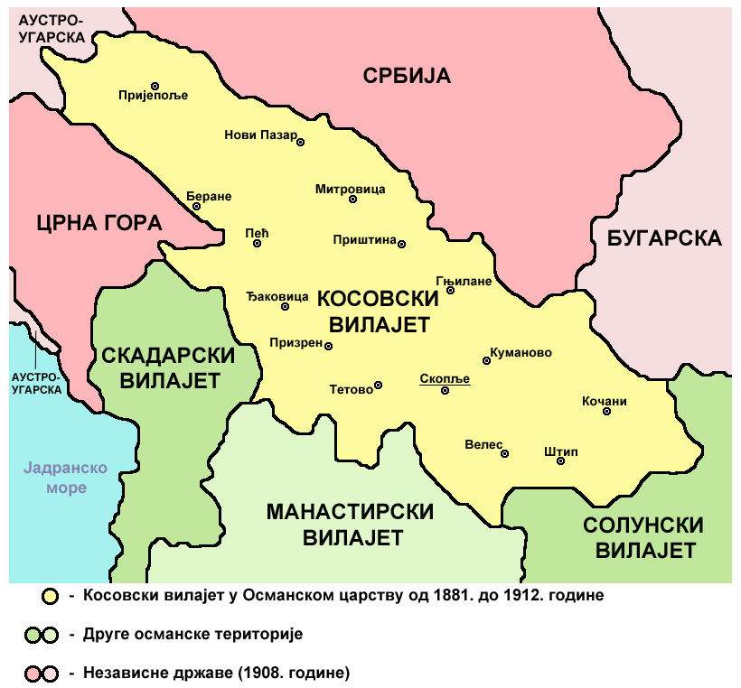 Vilayet of Kosovo within Ottoman Empire from 1881 to 1912.